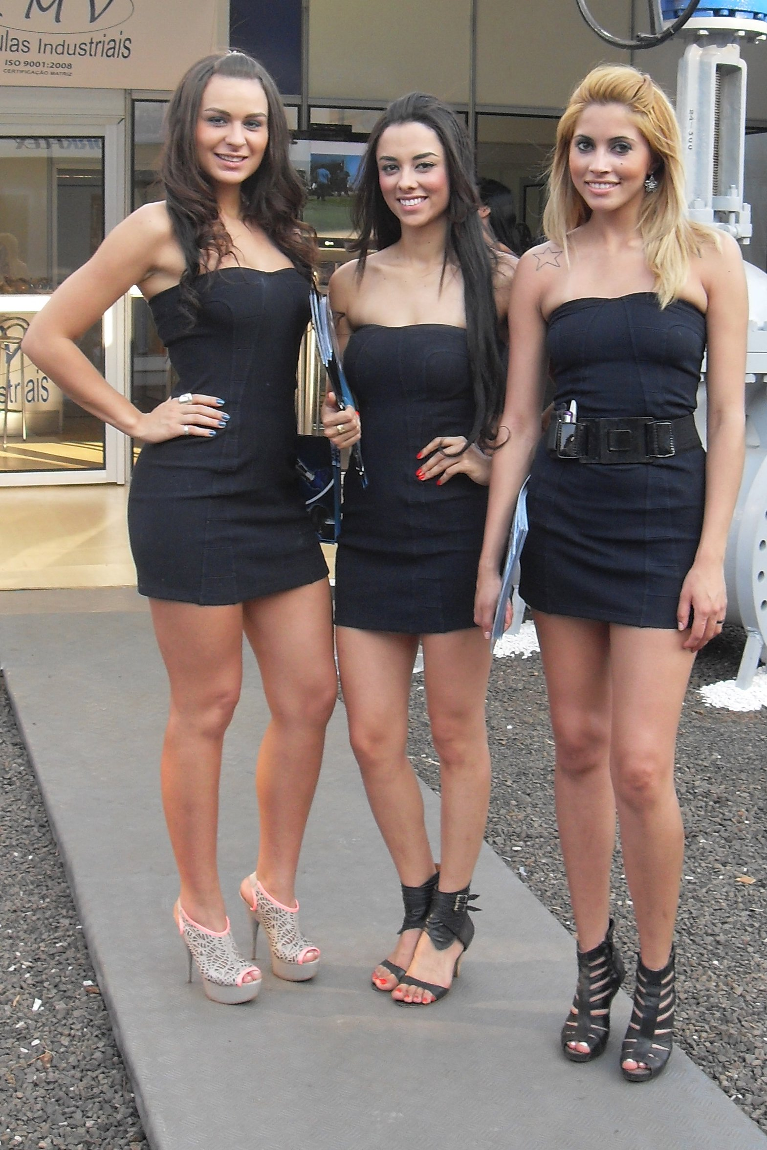 Promotional models on the Fenaucro Fair in Sertaozinho, Brazil